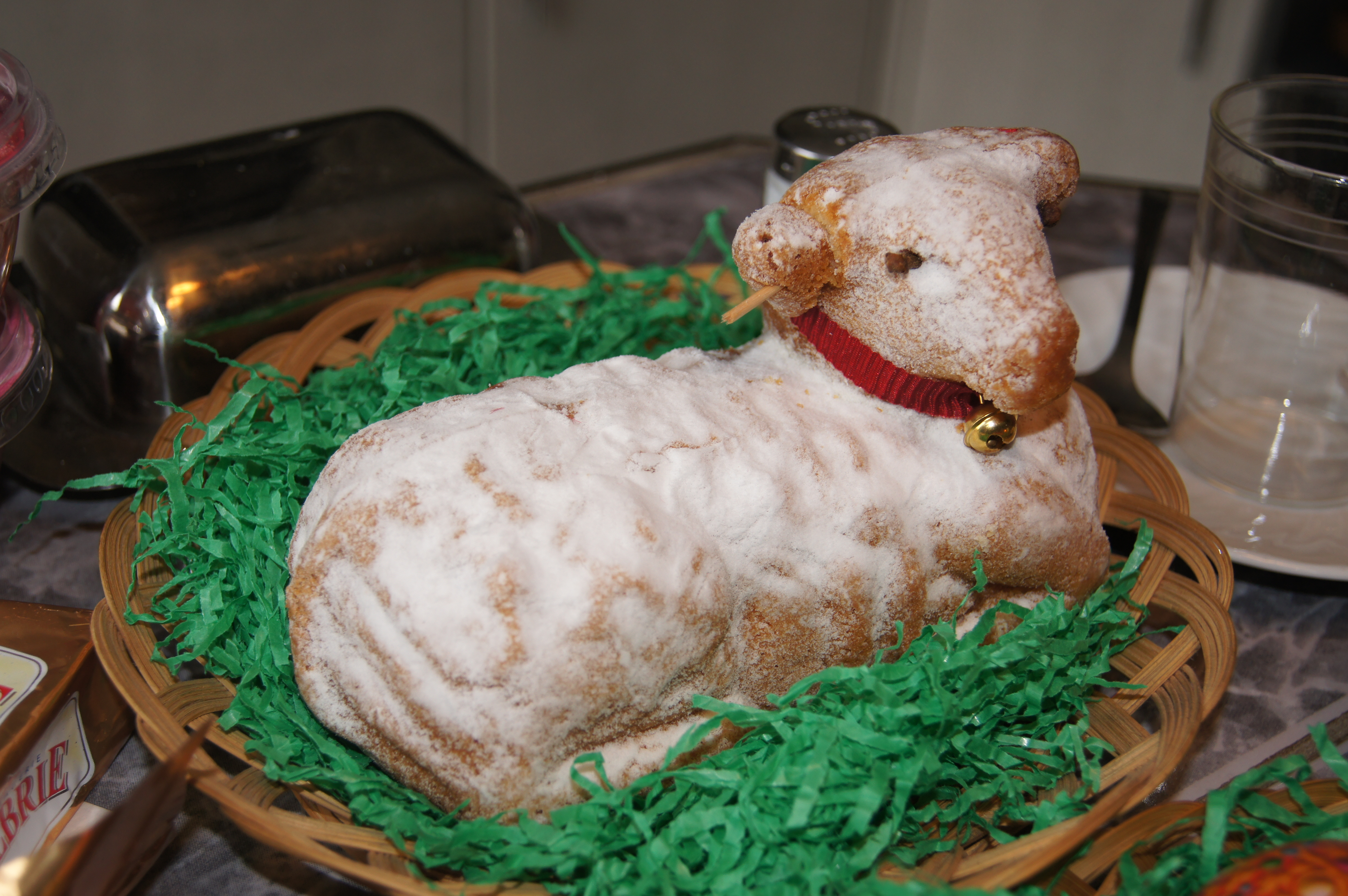 Easter Lamb as a cake